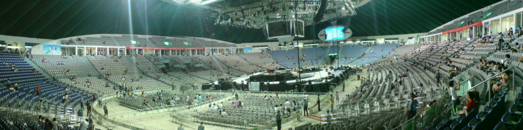 Guangzhou Gymnasium main arena.